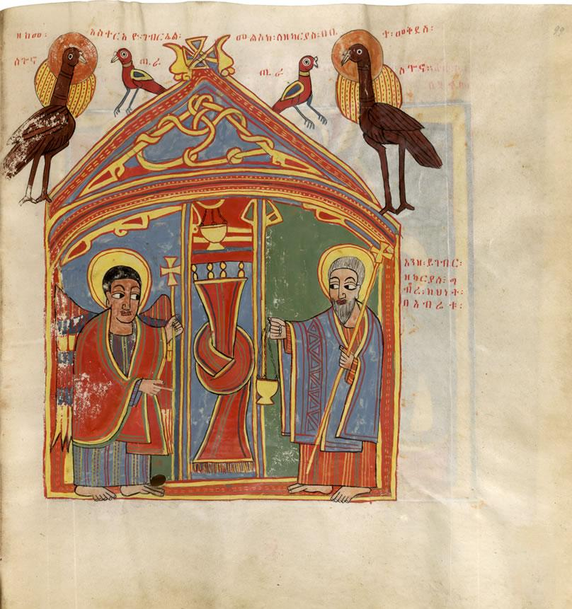 British Library Add. MS 59874 Ethiopian Bible - Annunciation to Zechariah (Ge'ez script)